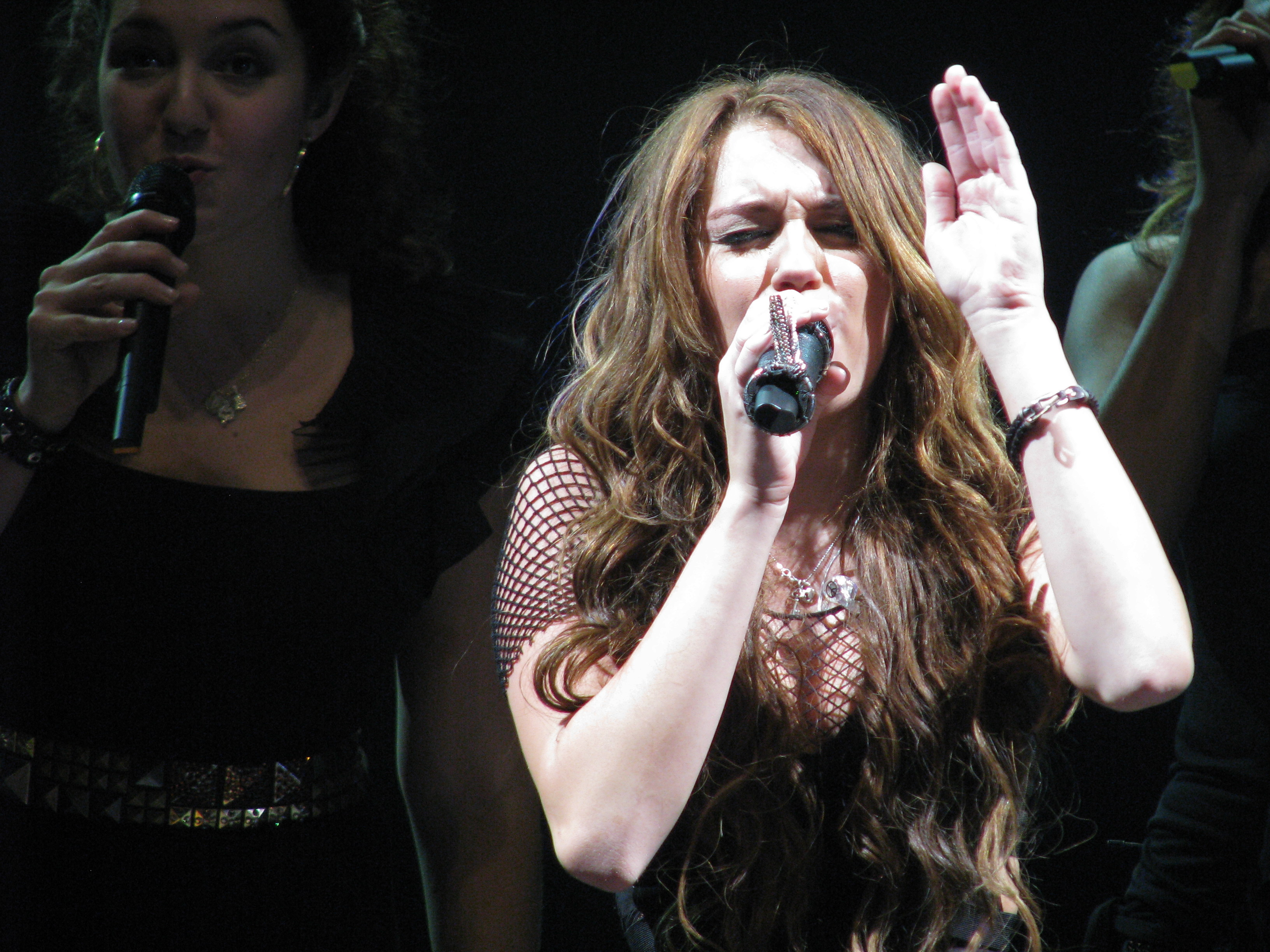 A teen singing.